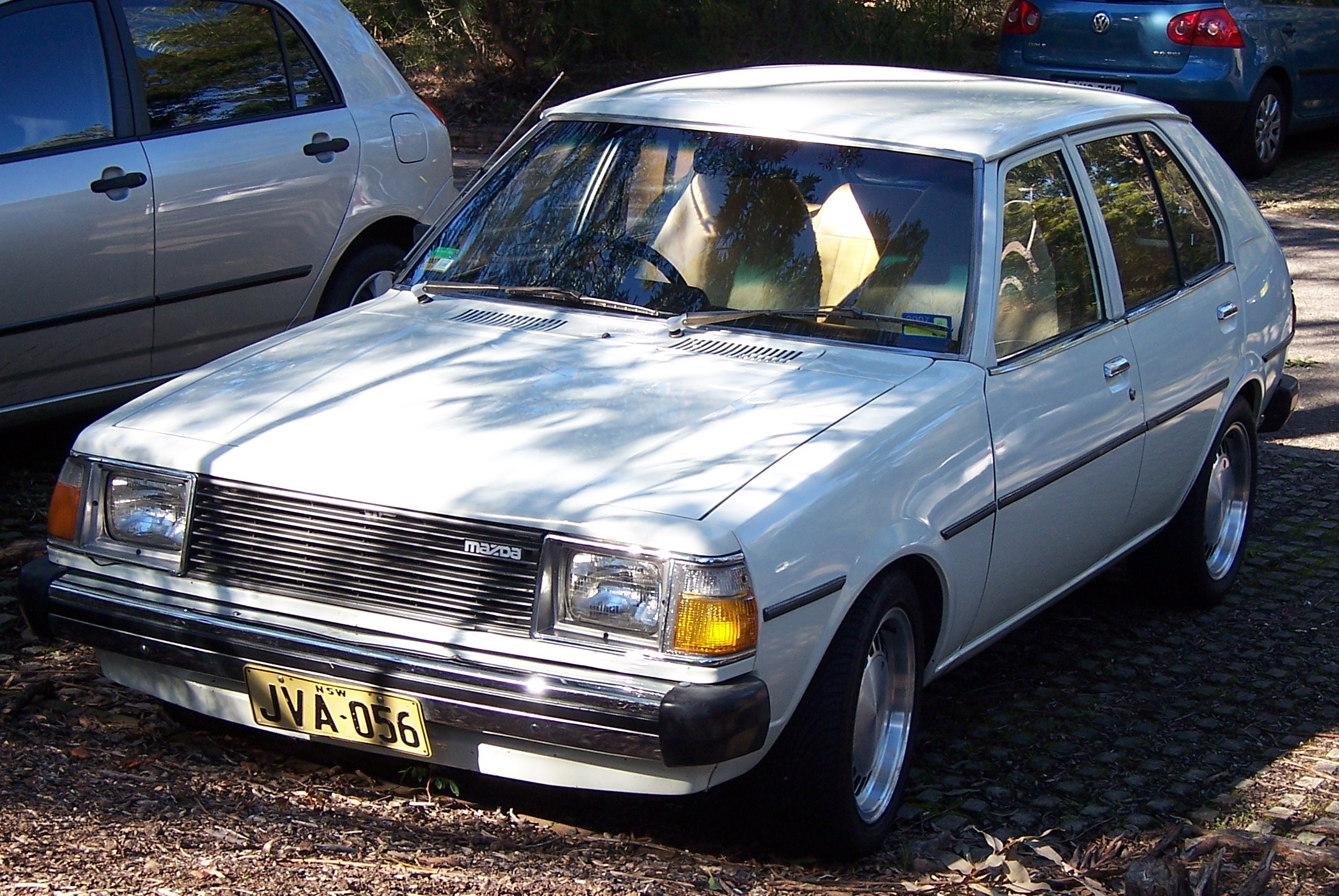 1980 Mazda 323 (FA4TS) 1.4 5-door hatchback. Photographed in Audley, New South Wales, Australia.